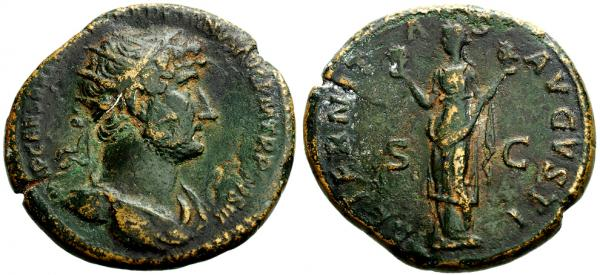 Ruler: Hadrian (Augustus) Coin: AE Dupondius - Radiate, draped bust right AETERNITASAVGVSTI - Aeternitas standing facing, holding heads of sun and moon